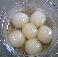 Kanzarashi. 島原のご当地グルメ「かんざらし」, Shimabara.